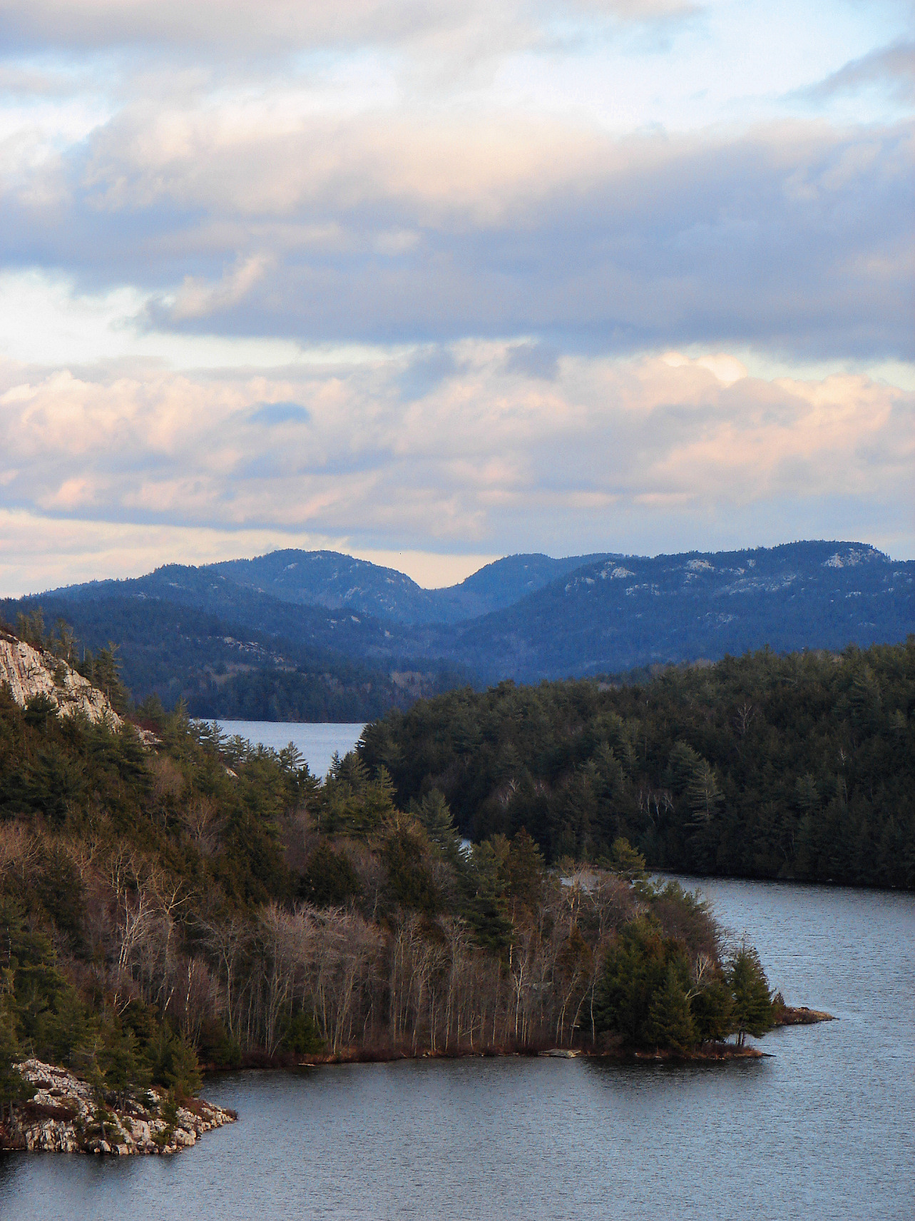 La Cloche Mountains, along the northern shore of Georgian Bay (Lake Huron) near Willisville, Ontario, Canada.